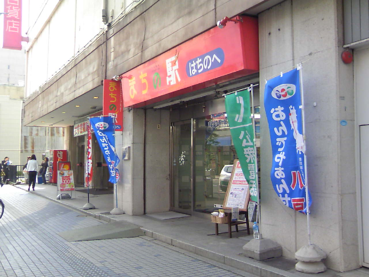 まちの駅はちのへ (Machi-no-Eki Hachinohe - Hachinohe, Aomori, JAPAN)